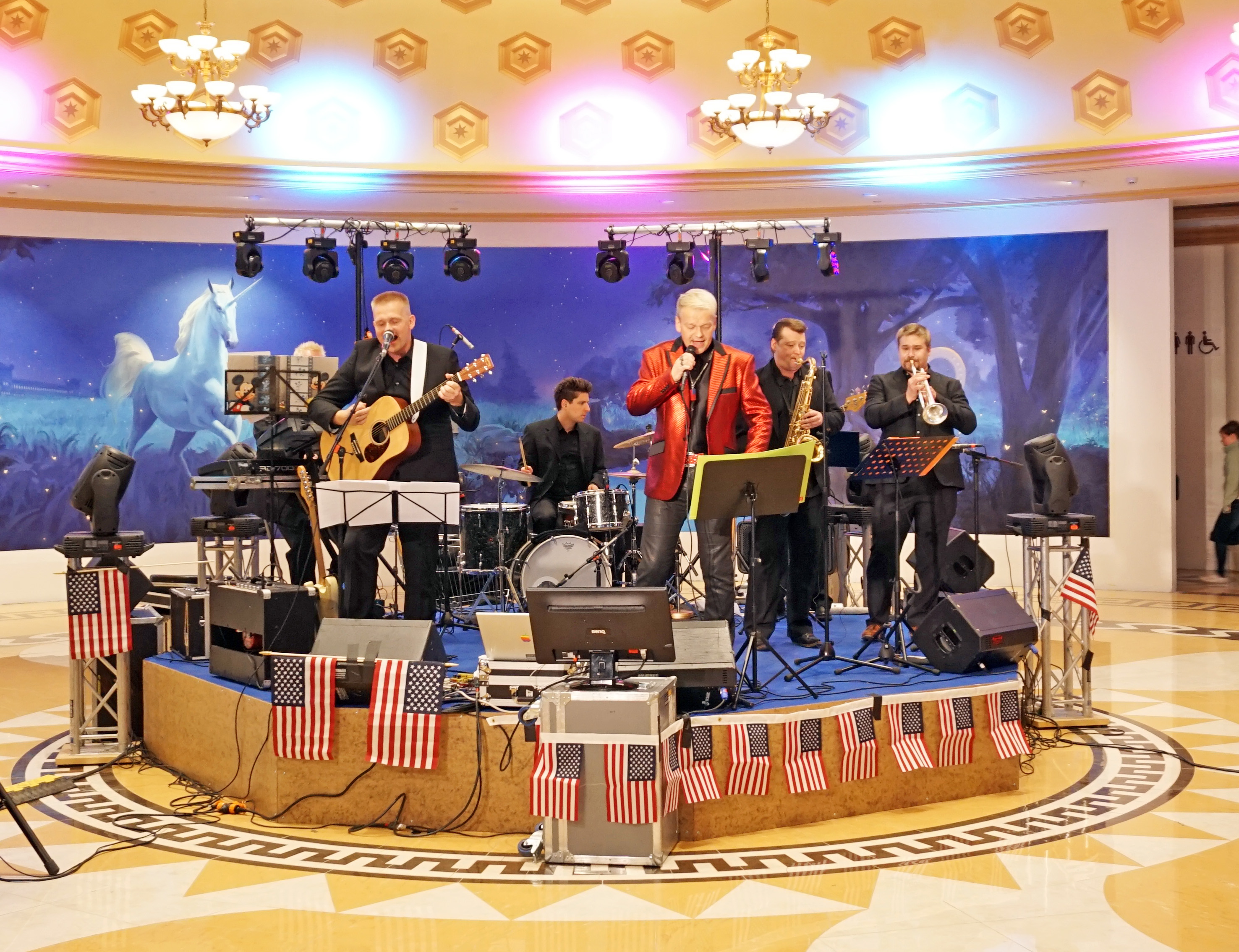 Las Vegas show of Kurre Westerlund in Veljekset Keskinen shopping center in 23th June 2017.